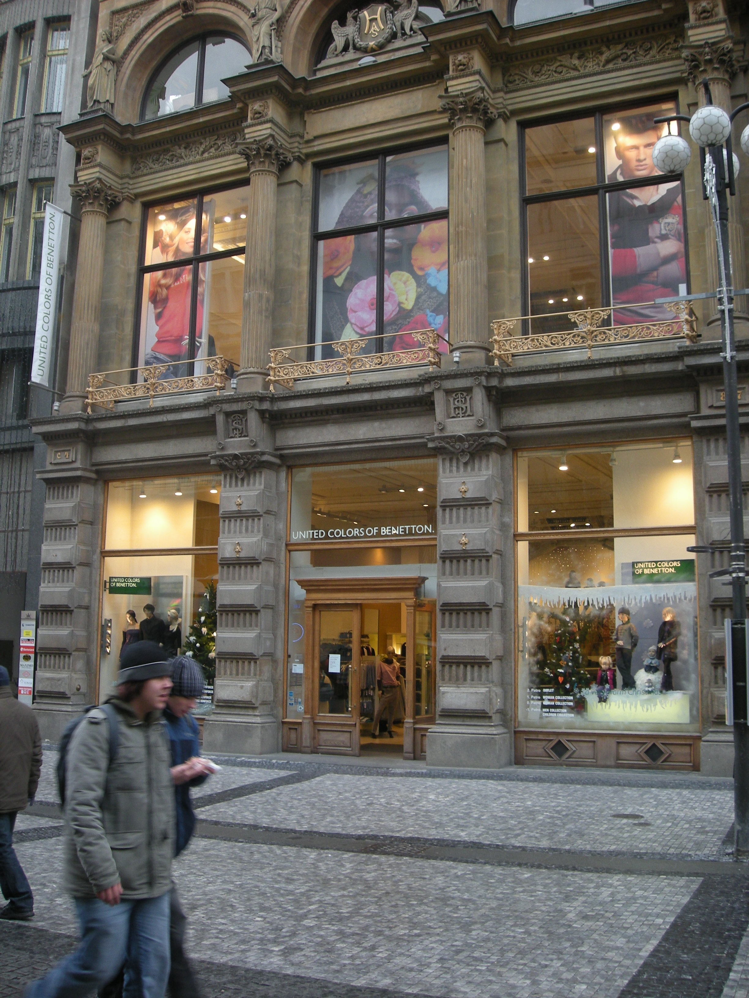 United Colors of Benetton store in Na Prikope street, Prague, Czech republic, december 2009.